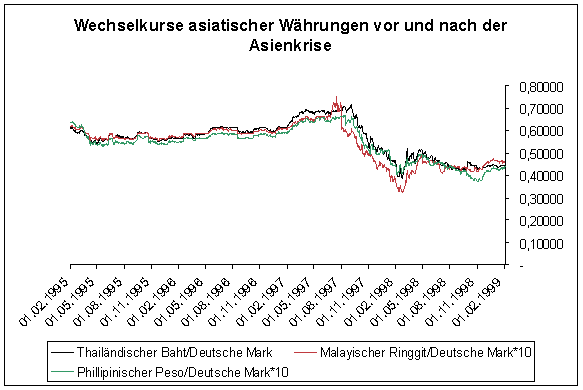 Exchange rates Asian crises